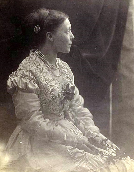 Anne Thackeray Ritchie, Albumen Print from Collodion negative, May 1870